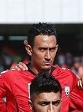 Ahmad Hatifi before match with Japan, 2018 FIFA World Cup qualification, Azadi Stadium, Tehran